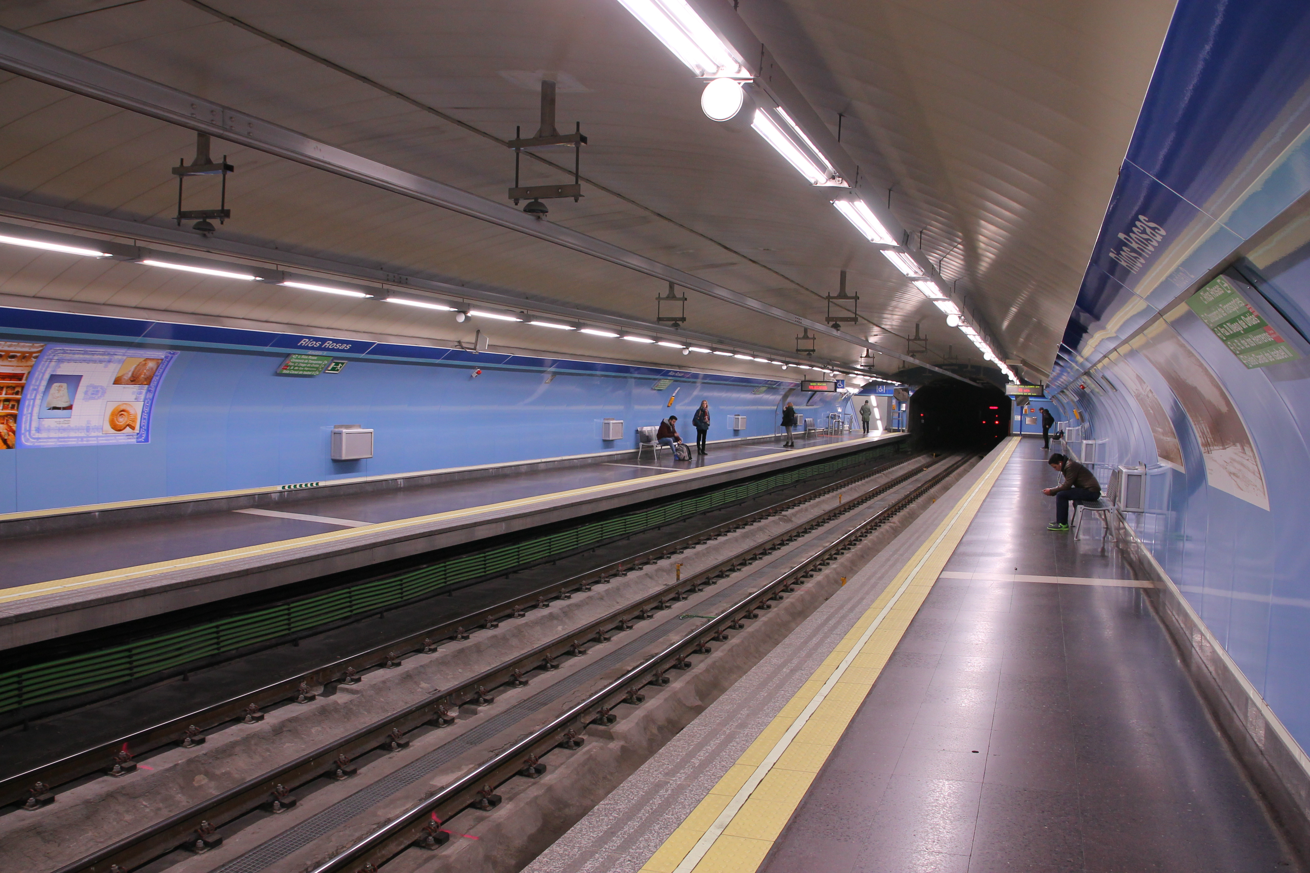 Estación de Ríos Rosas